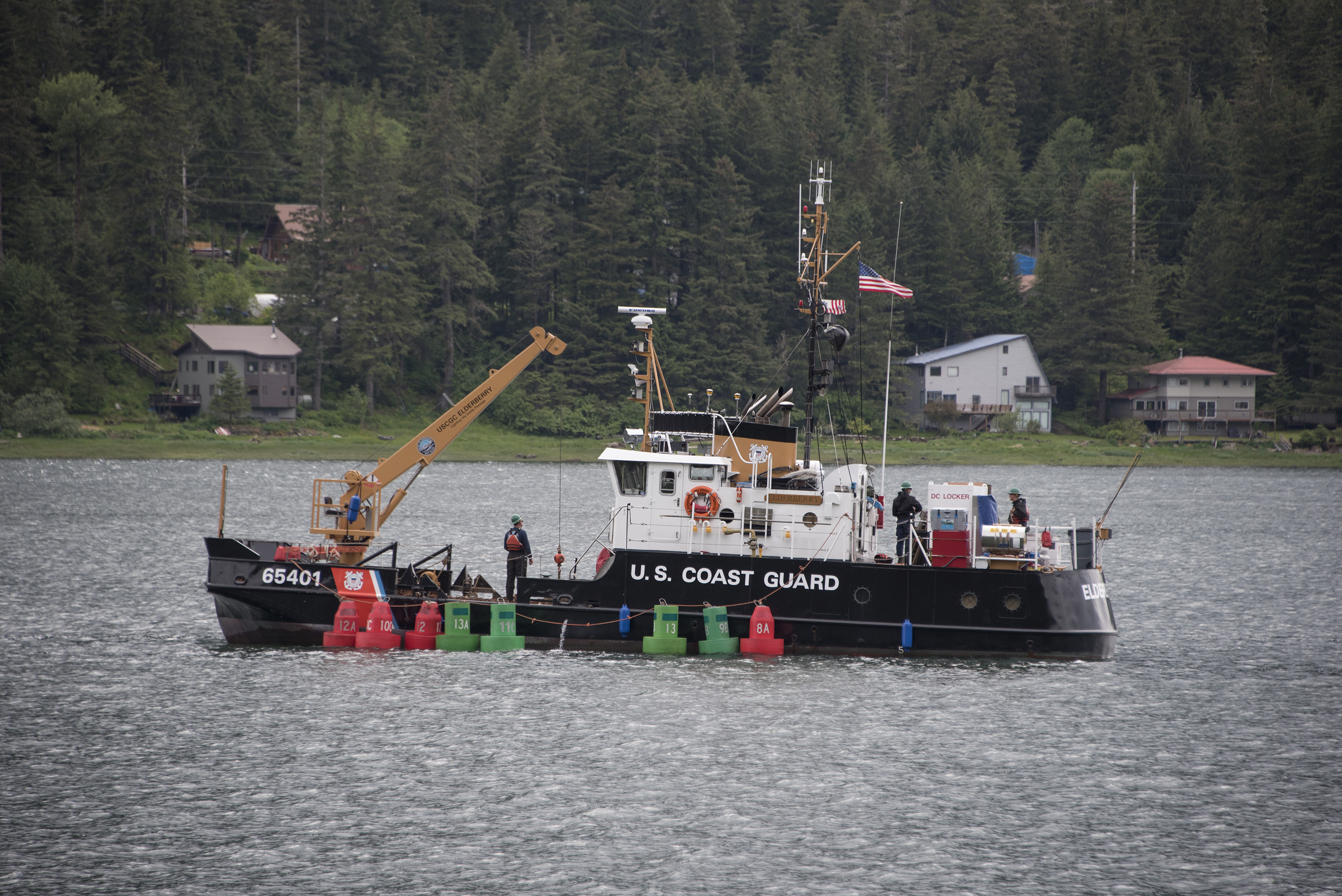 USCGC Elderberry (WLI 65401) repositioning navigational aids on the gastineau Channel, Juneau, Alaska.